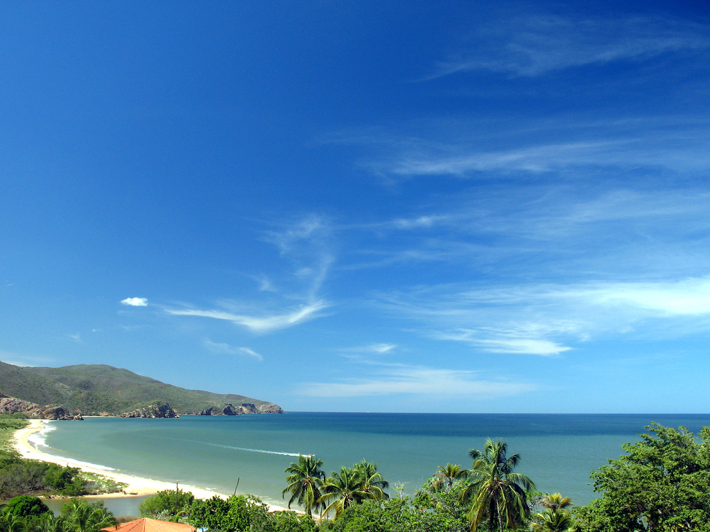 This photo is licensed under a Creative Commons license. If you use this photo within the terms of the license or make special arrangements to use the photo, please list the photo credit as "Guillermo Esteves" and link the credit to .